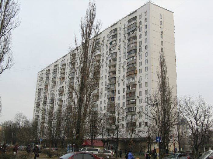 House where General Kriuchonkin lived in 14 Oleksiya Davydova Boulevard, Kyiv, Ukraine